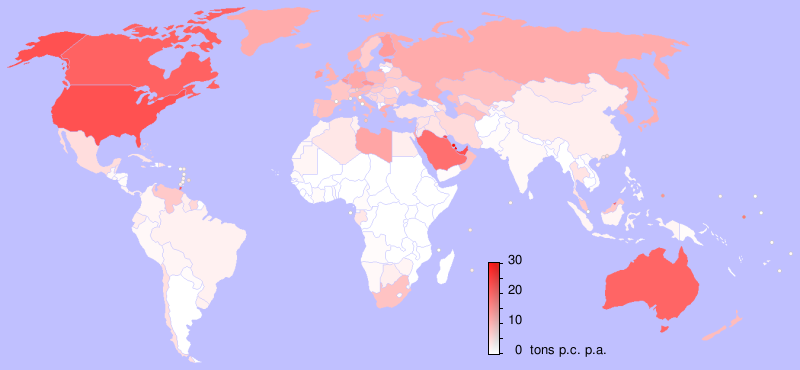 Worldwide CO2 emission per capita and year for all countries (2000)